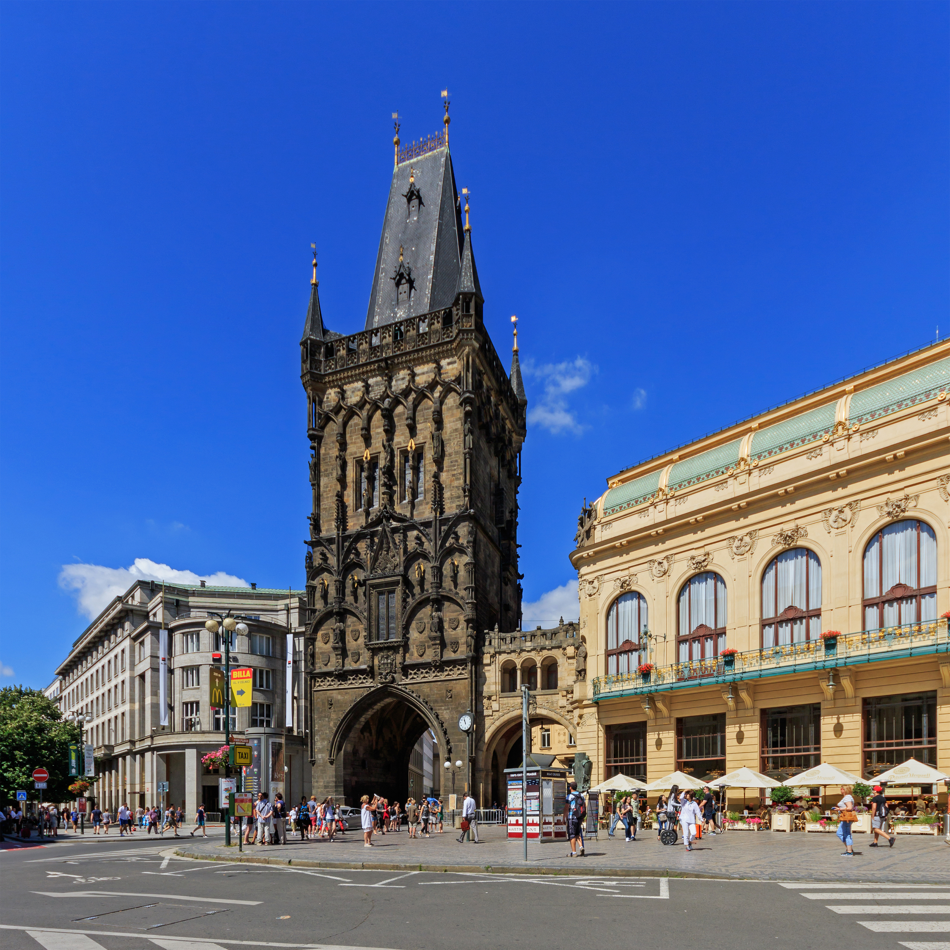 Powder Tower in Prague (Czech Republic)